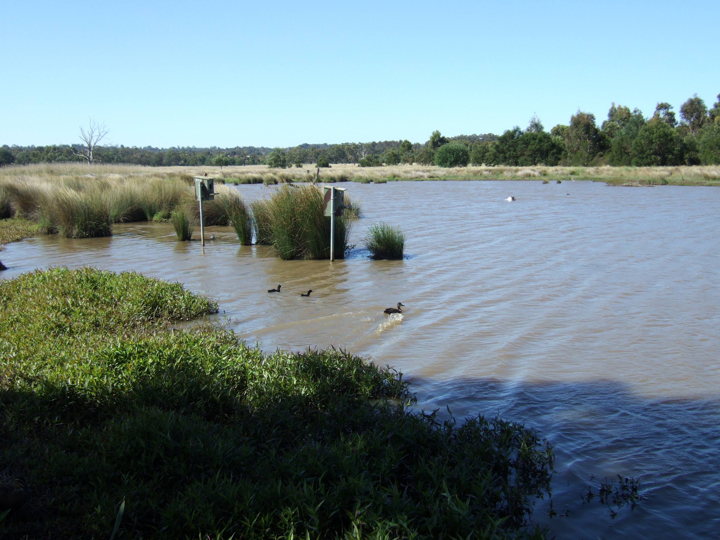 One of the permanent sources of water at the Bushy Park Wetlands in Melbourne, Australia. Viewed from the bird hide.